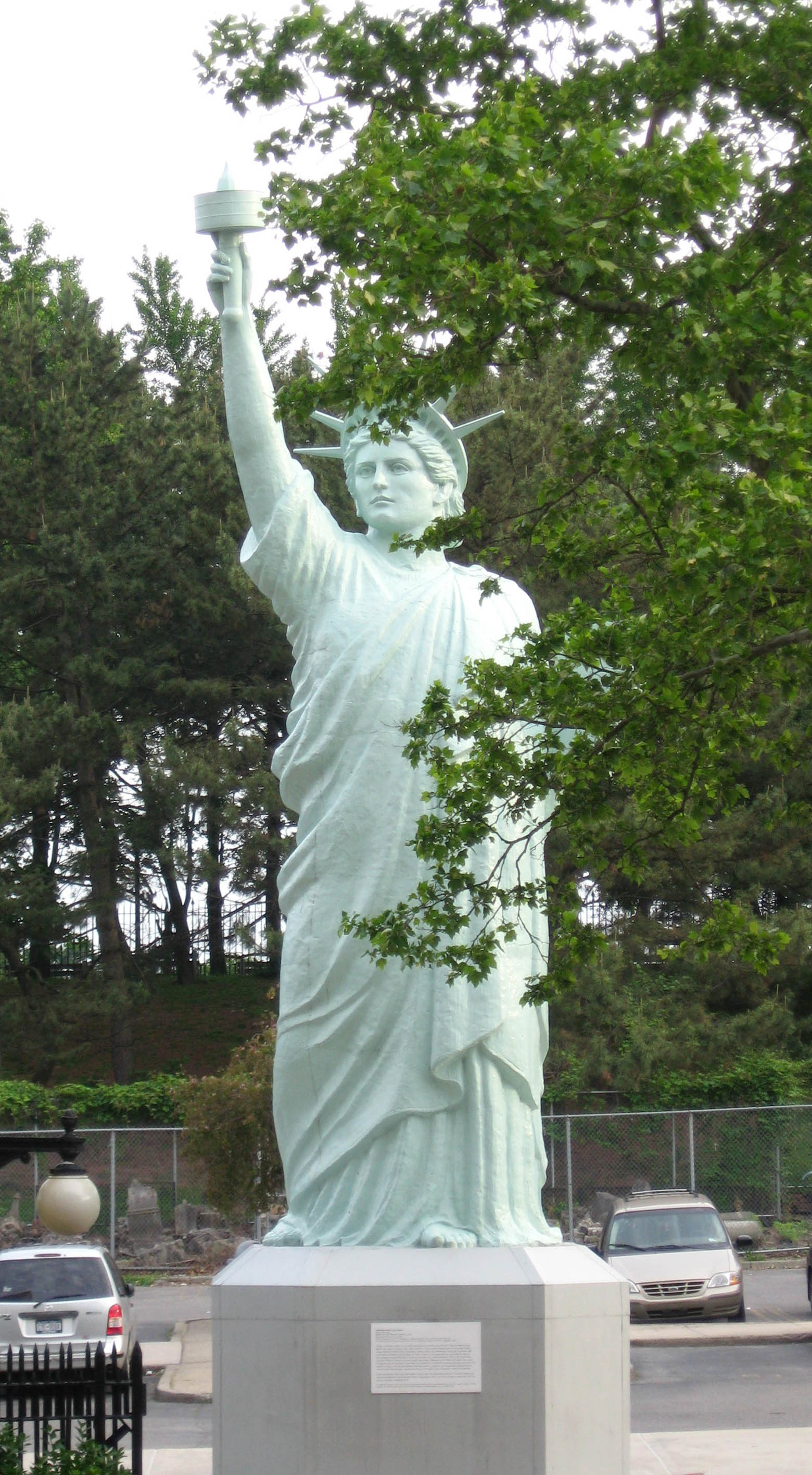 Looking south behind the Brooklyn Museum at the Statue of Liberty replica in the parking lot, shortly before sundown on a cloudy June 3 2008.